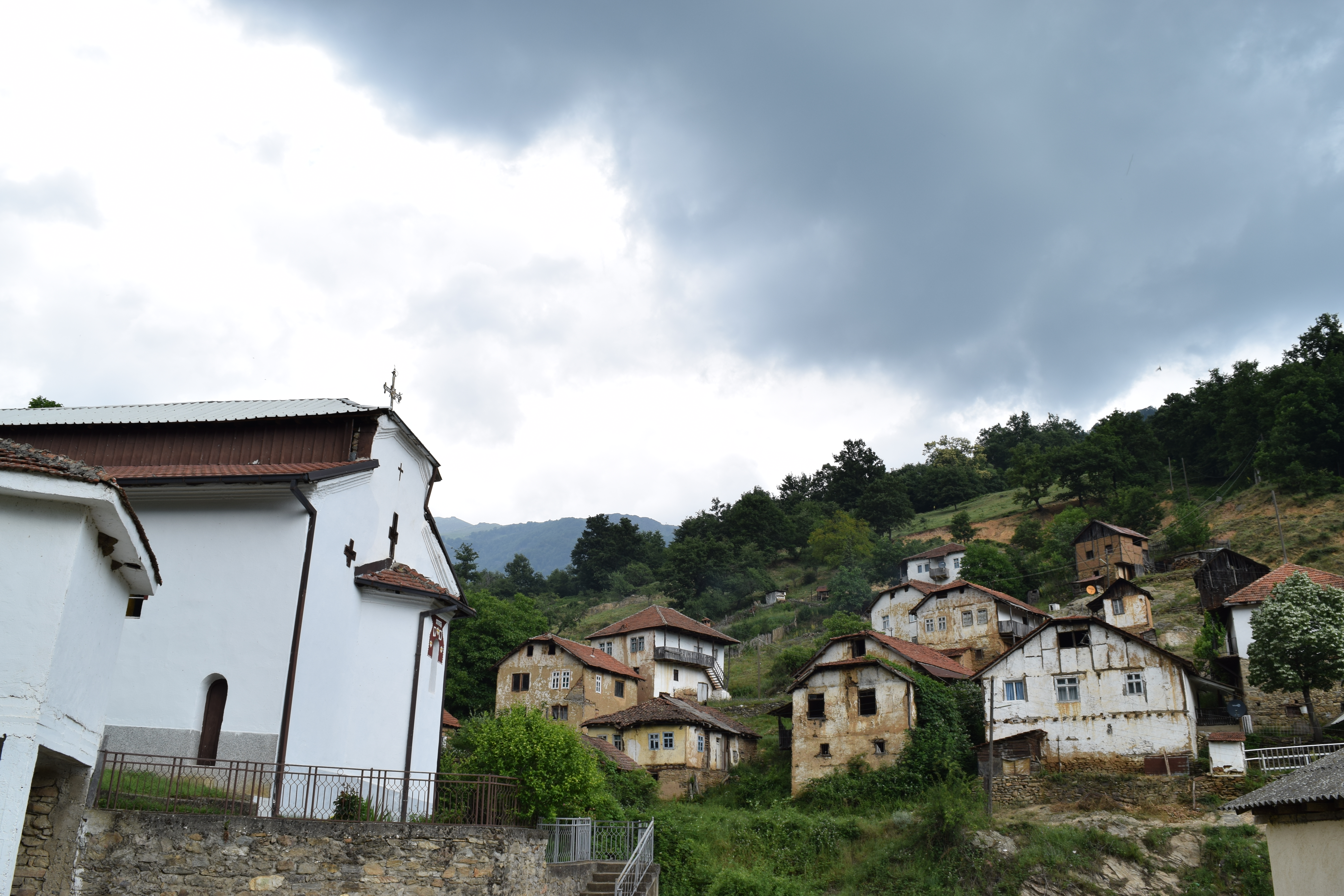 View of the St. Mary Assumption Church in the village Oreše